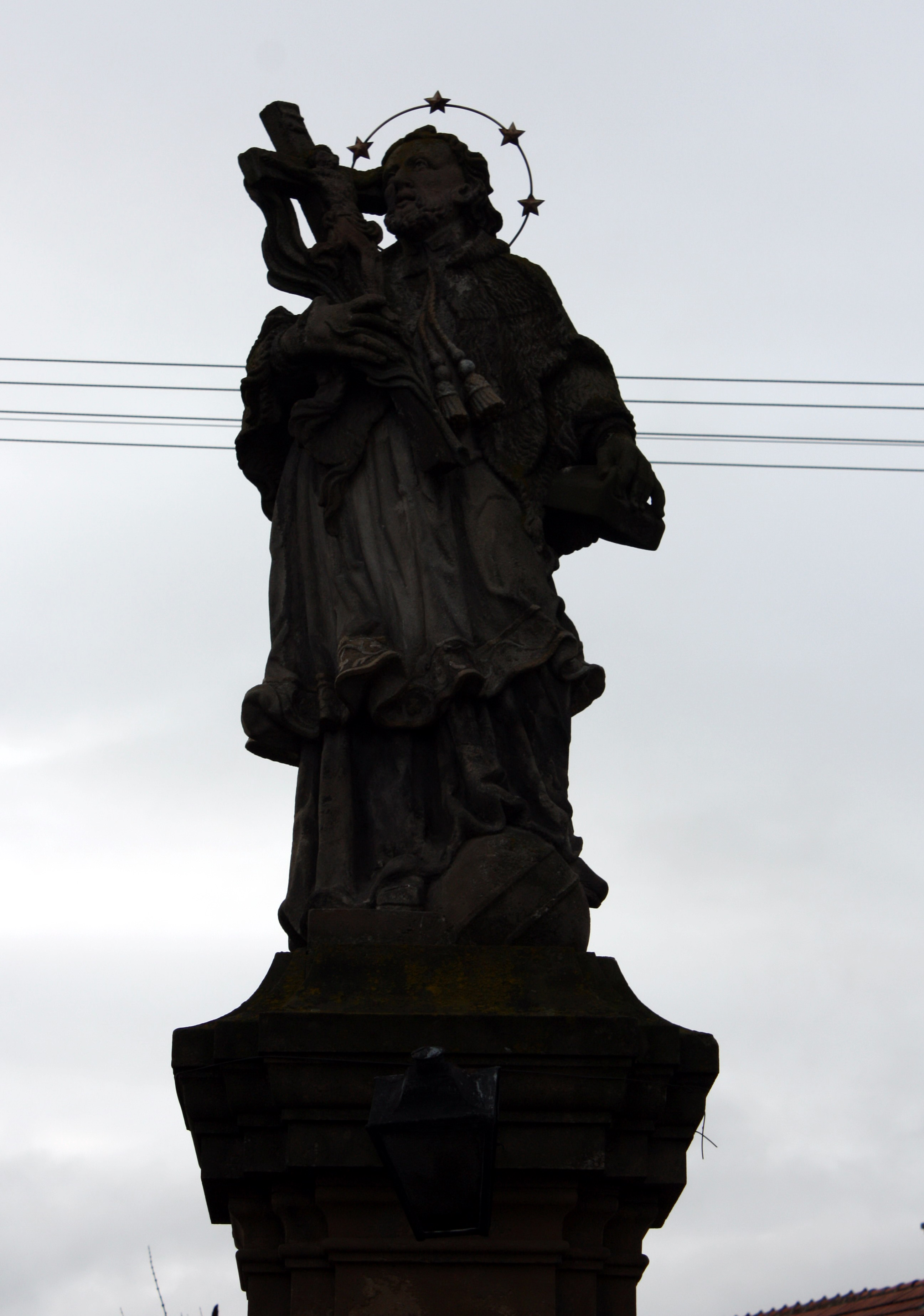 statue of St John of Nepomuk in Dolany, Klatovy Distirict.